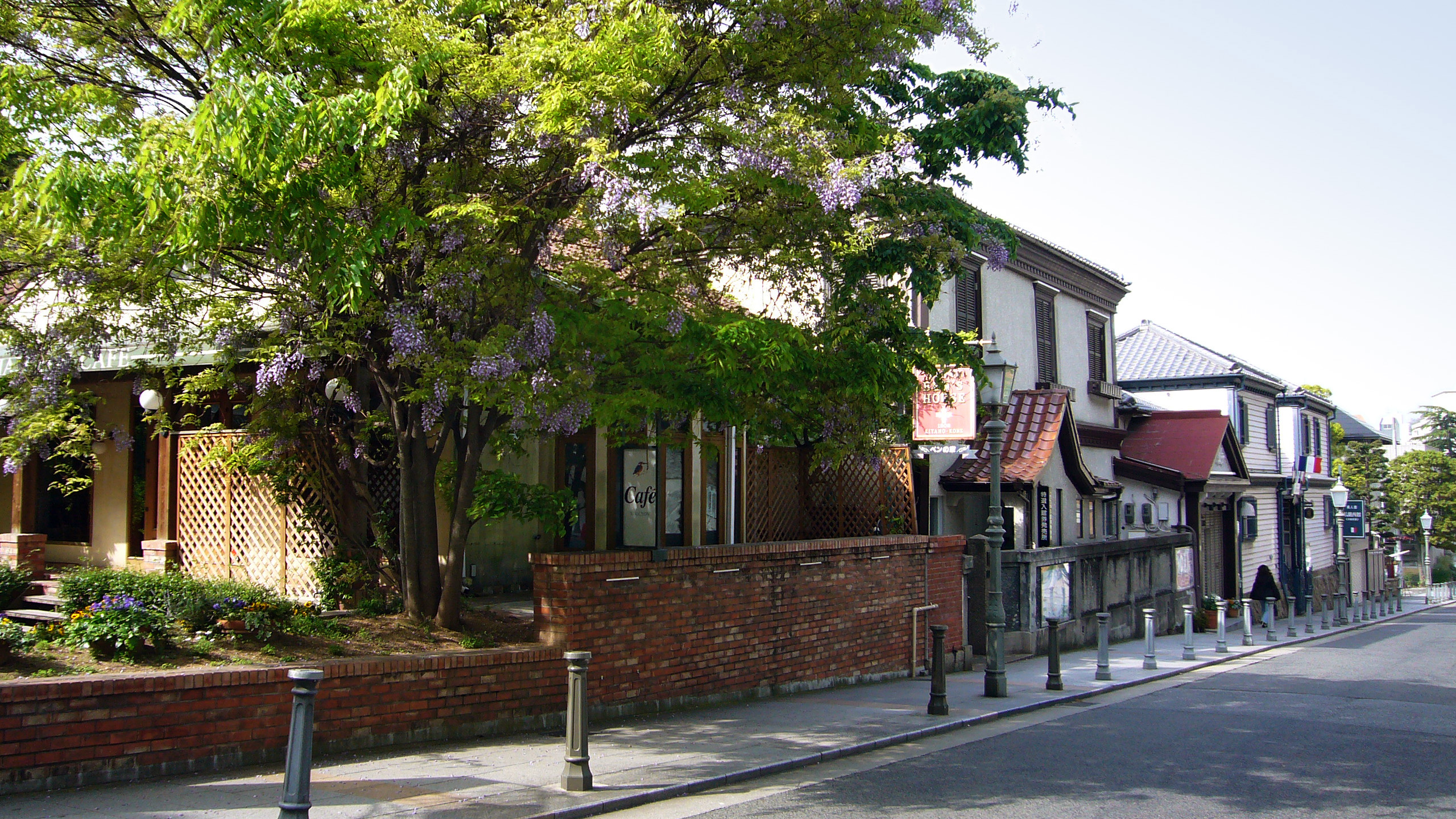 Kitano Street in Kobe, Hyogo, Japan